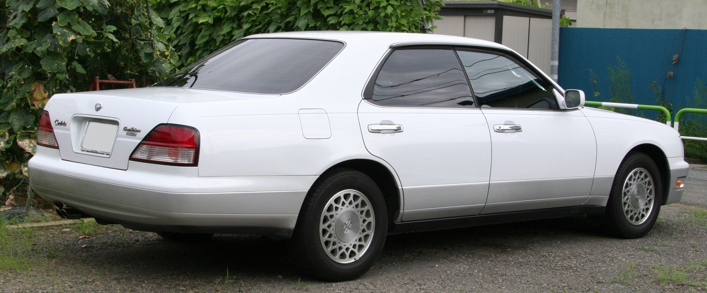 Nissan Cedric